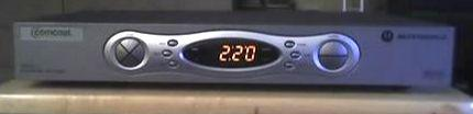 Photographer's own STB.